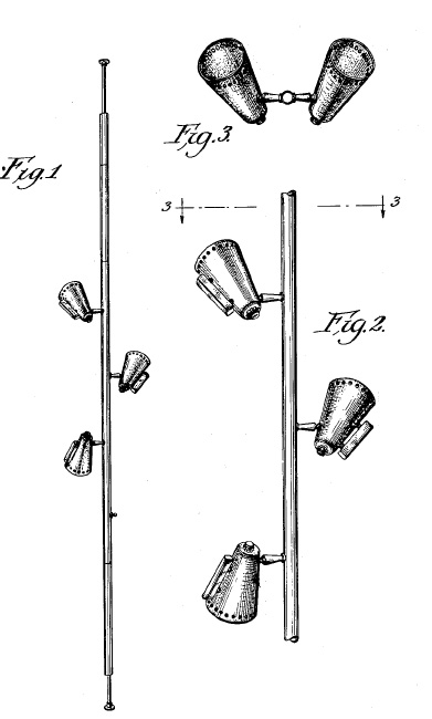 This is a US Patent Drawing, and therefore not subject to copyright. It is to be used to illustrate the article on Sears v. Stiffel, The patent nmber is Des. 180,251. Fetchable at [1] via Internet Explorer as of 31 Dec 2008. Licensing